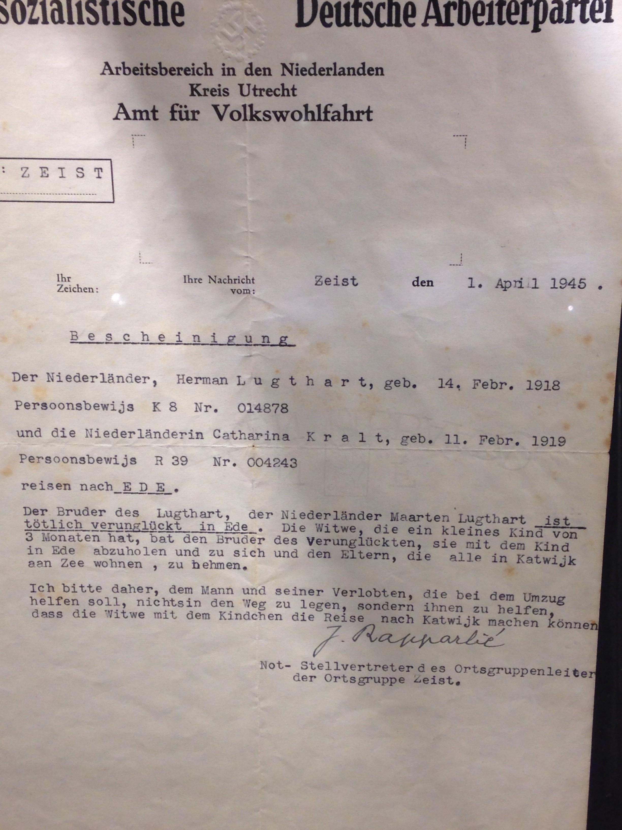 Document which gives the Dutch resistance fighter Herman Lugthart permission (by the Germans) after the execution of his brother Max to travel to Ede to pick up Max's wive and son.